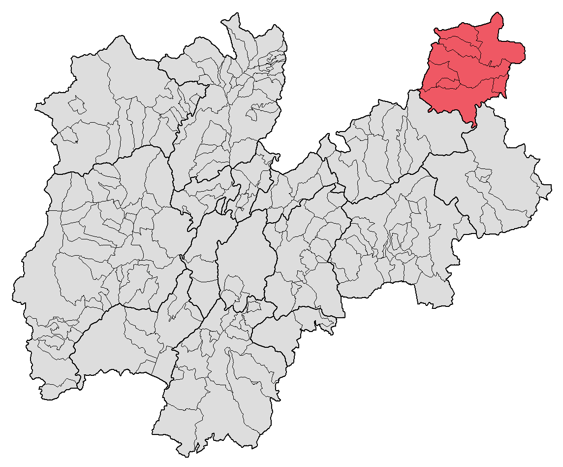 Location map of "Comun General de Fascia" (11)